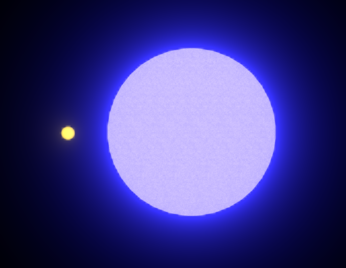 Sun (yellow left) and O5 type main sequence star (bluish, right). O5V star has radius approx. 15 radius of sun.